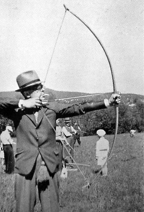 Archer 1931